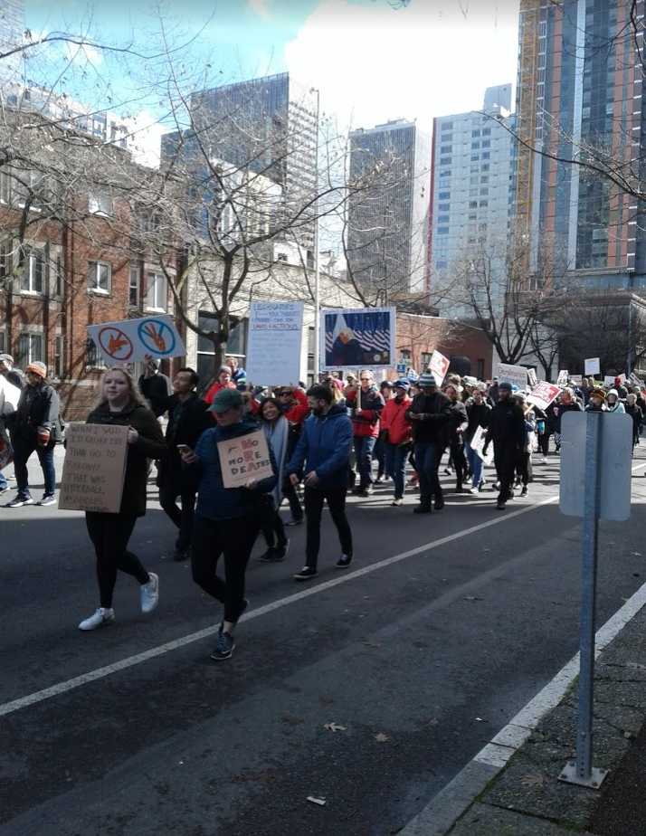 The March For Our Lives in Seattle, on 24 March 2018. This image showcases what it was like for many cities across America and the world, where students joined teachers, educators, parents and young children to march against gun violence and massacres by guns, following the Stoneman Douglas High School massacre in Parkland, Florida on 14 February, where a former student, Nikolas Cruz, used his legally purchased semi-automatic assault rifle to shoot 17 people dead and injure another 14 before being arrested and indicted. The protests were also aimed against the National Rifle Association, a conservative gun-rights organization notable for funding Republican lawmakers and their campaigns in exchange for assurances that lawmakers would oppose any gun control. People marched in favor of the #VoteThemOut movement, which seeks to find lawmakers who oppose tighter gun restrictions and accepted funding from the NRA to push pro-gun laws, and harm their chances of reelection.